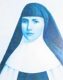 Photograph of Arcángela Badosa, servant of God, sister carmelite